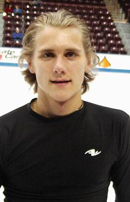 This photo was taken by myself in October 2005, from Skate Canada competition in St. Johns, Newfoundland. Taken of Andrei Griazev at practice for event.